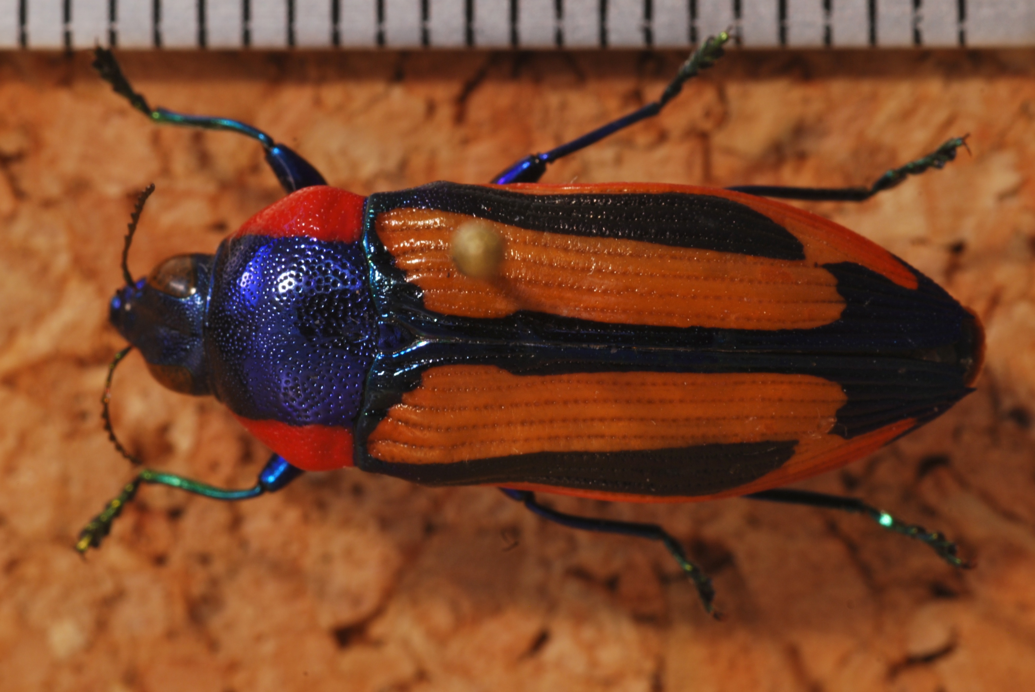 Western Australia, AUSTRALIA